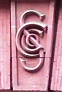 The Siegel-Cooper monogram, from the bulding at 249 West 17th Street between Seventh and Eighth Avenues in the Chelsea neighborhood of Manhattan, New York City, which was used as a warehouse and wagon house for the Siegel Cooper department store on Sixth Avenue (Avenue of the Americas). It was built in 1902 and designed by DeLemos & Cordes. (Source: [1])